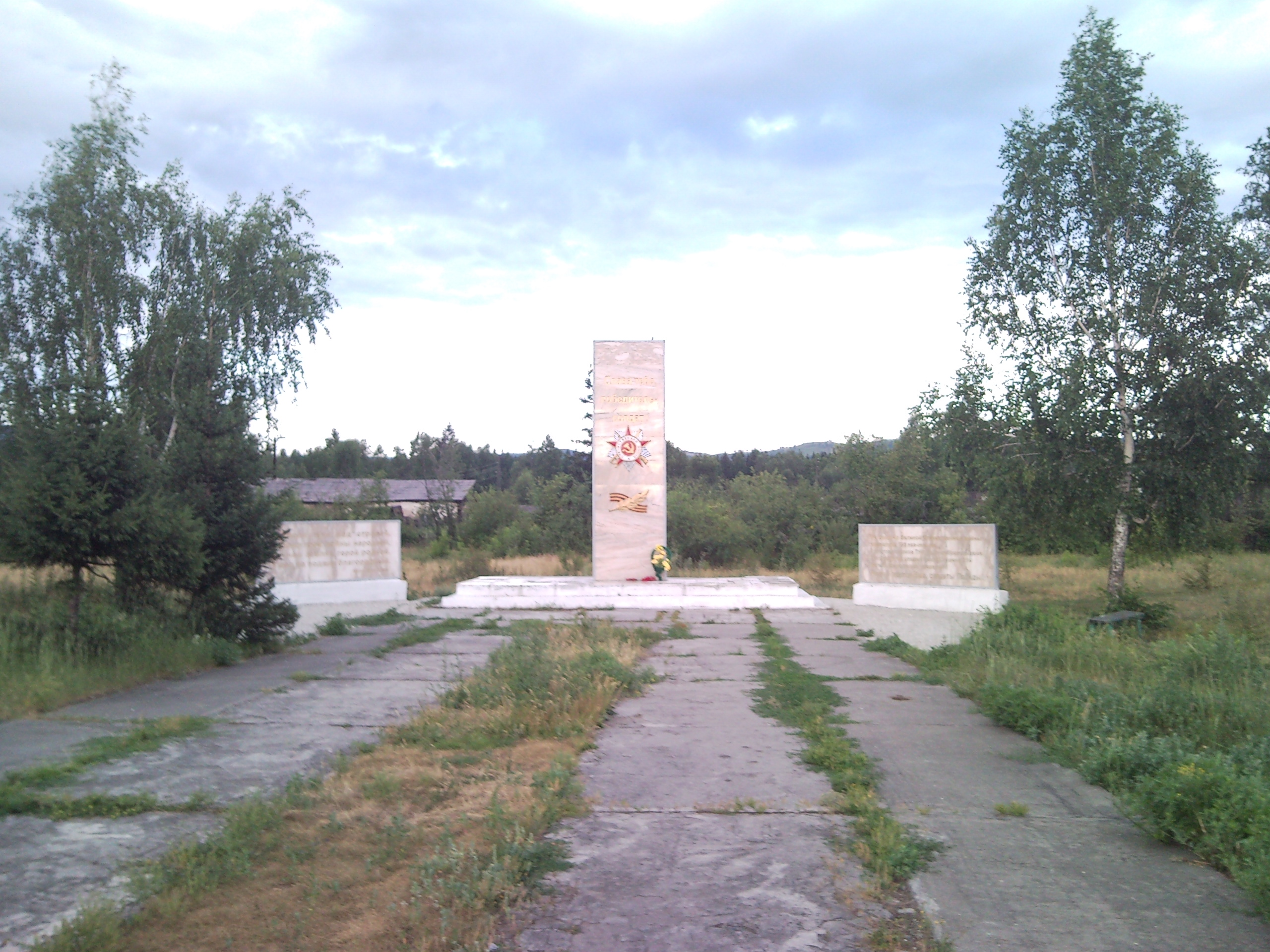 Saryg-Sep: Memorial of the Great Patriotic War